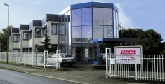 Stoebich Fire Protection - branch west (Unna/Germany)